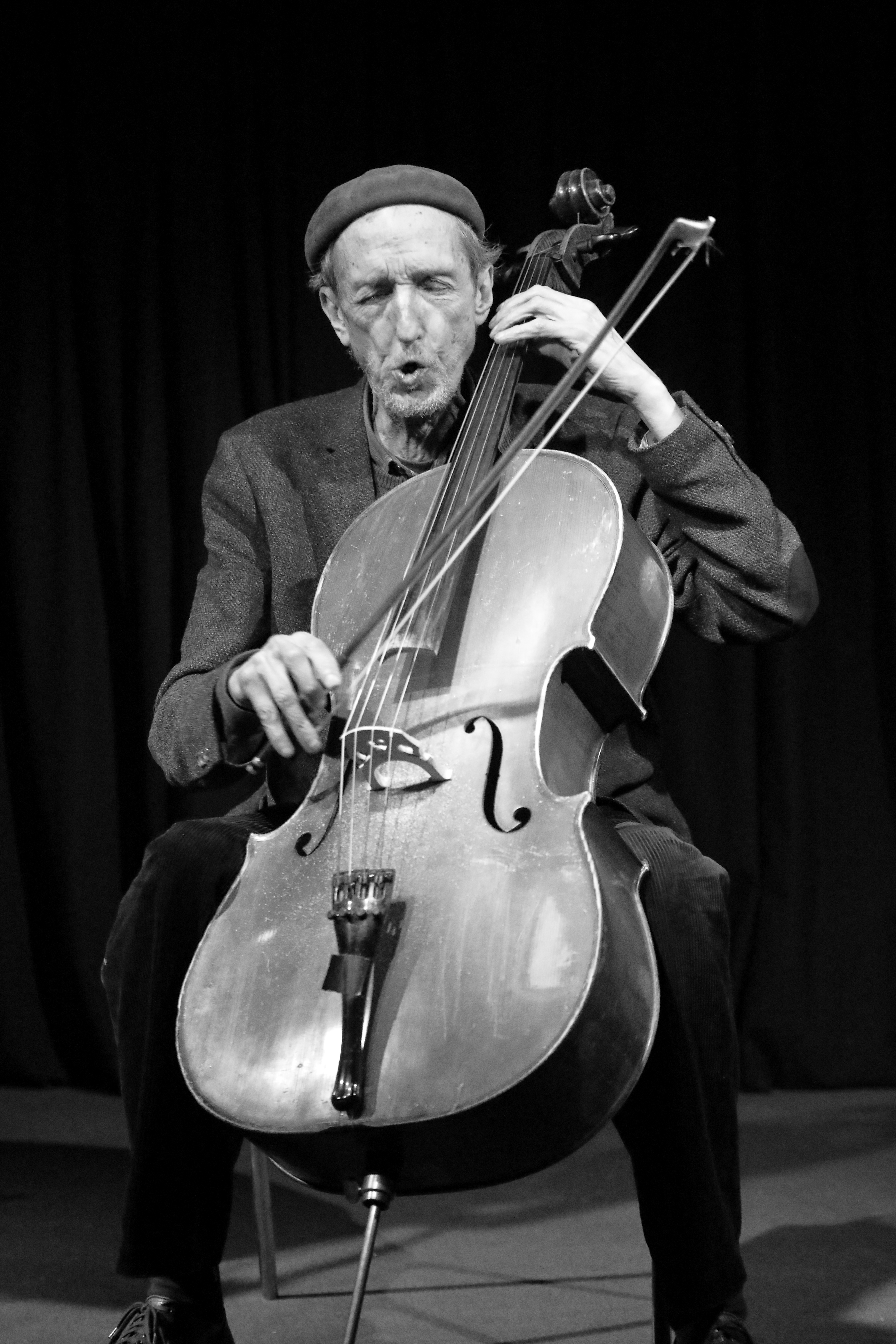 "Chaise et Chaiselongue" at Club W71, Weikersheim. "Chaise et Chaiselongue" are cello player Tristan Honsinger frim the US and double-bass player Joel Grip from Sweden.